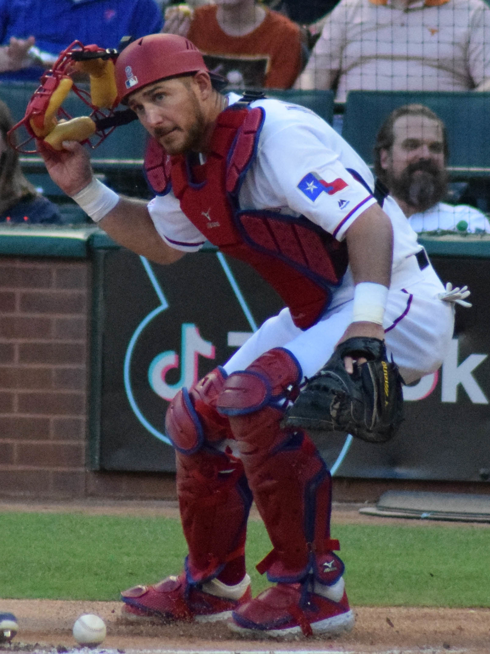 Jeff Mathis with the Texas Rangers during a 2019 game at Globe Life Park in Arlington